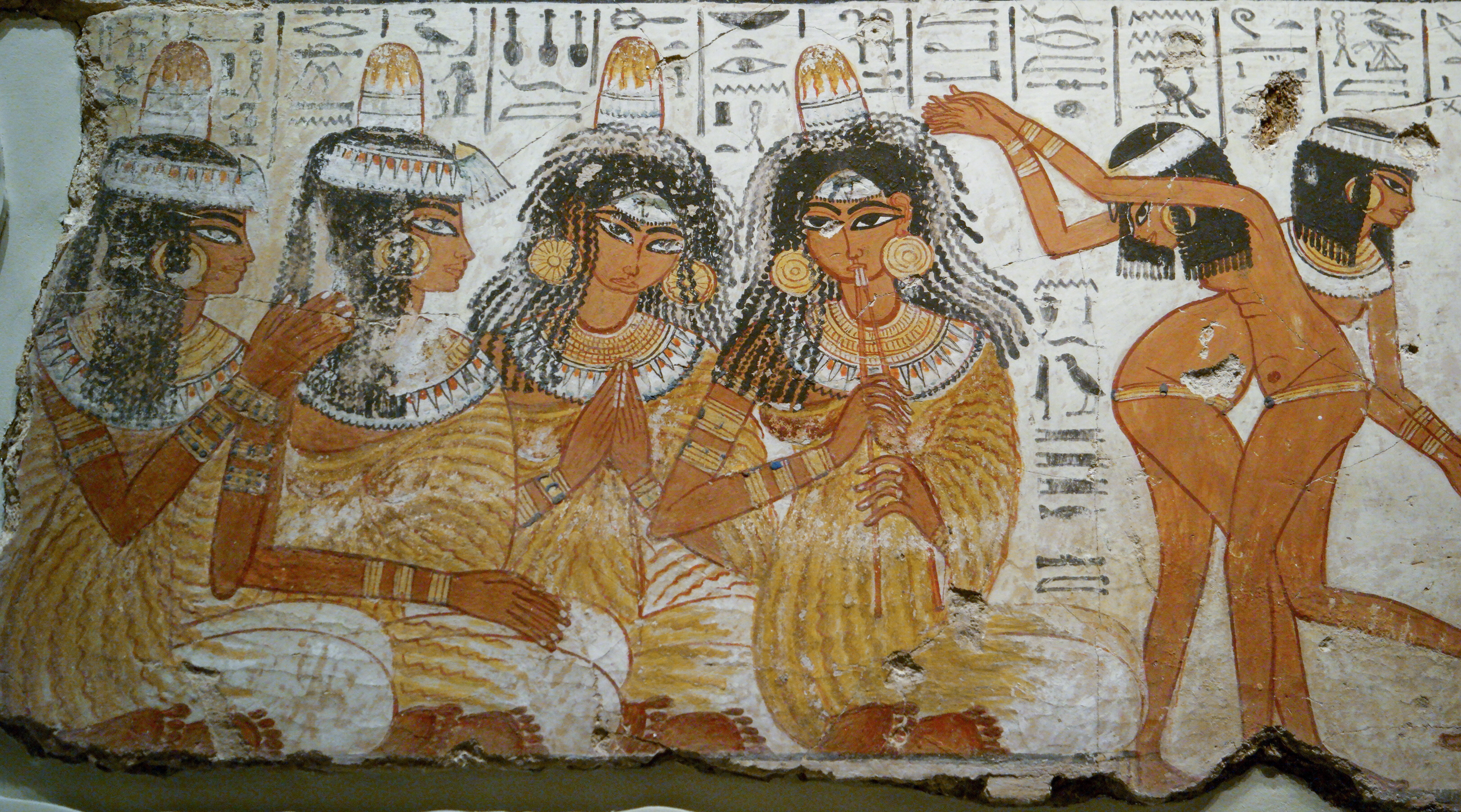 British Museum, Room 61.